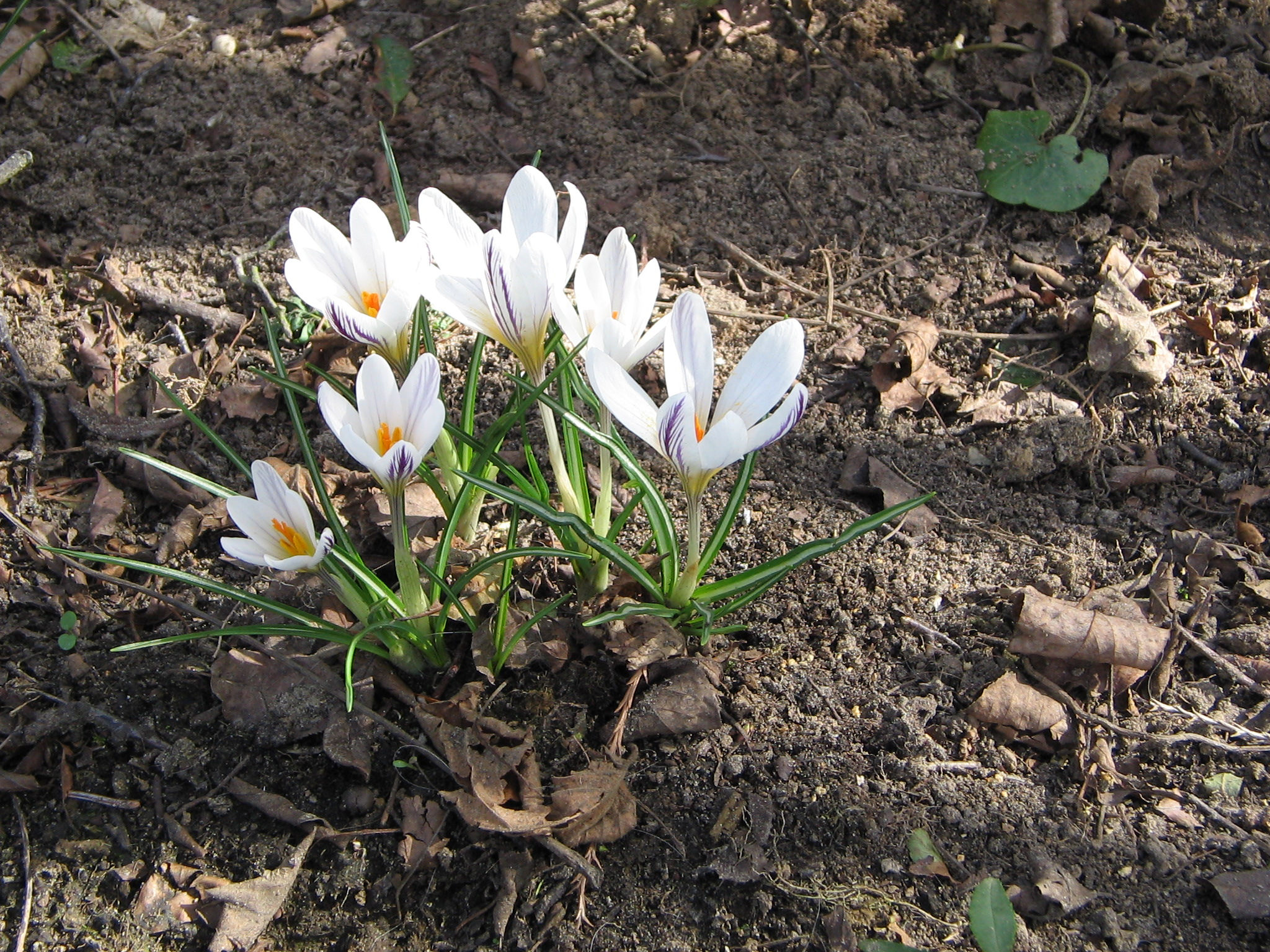 Crocus versicolor 'Picturatus'